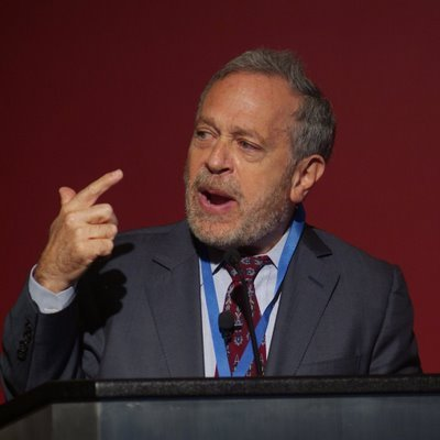 Robert Bernard Reich, American politician, academic, writer, and political commentator, attending the Progressive Governance Conference 2009 in Chile.